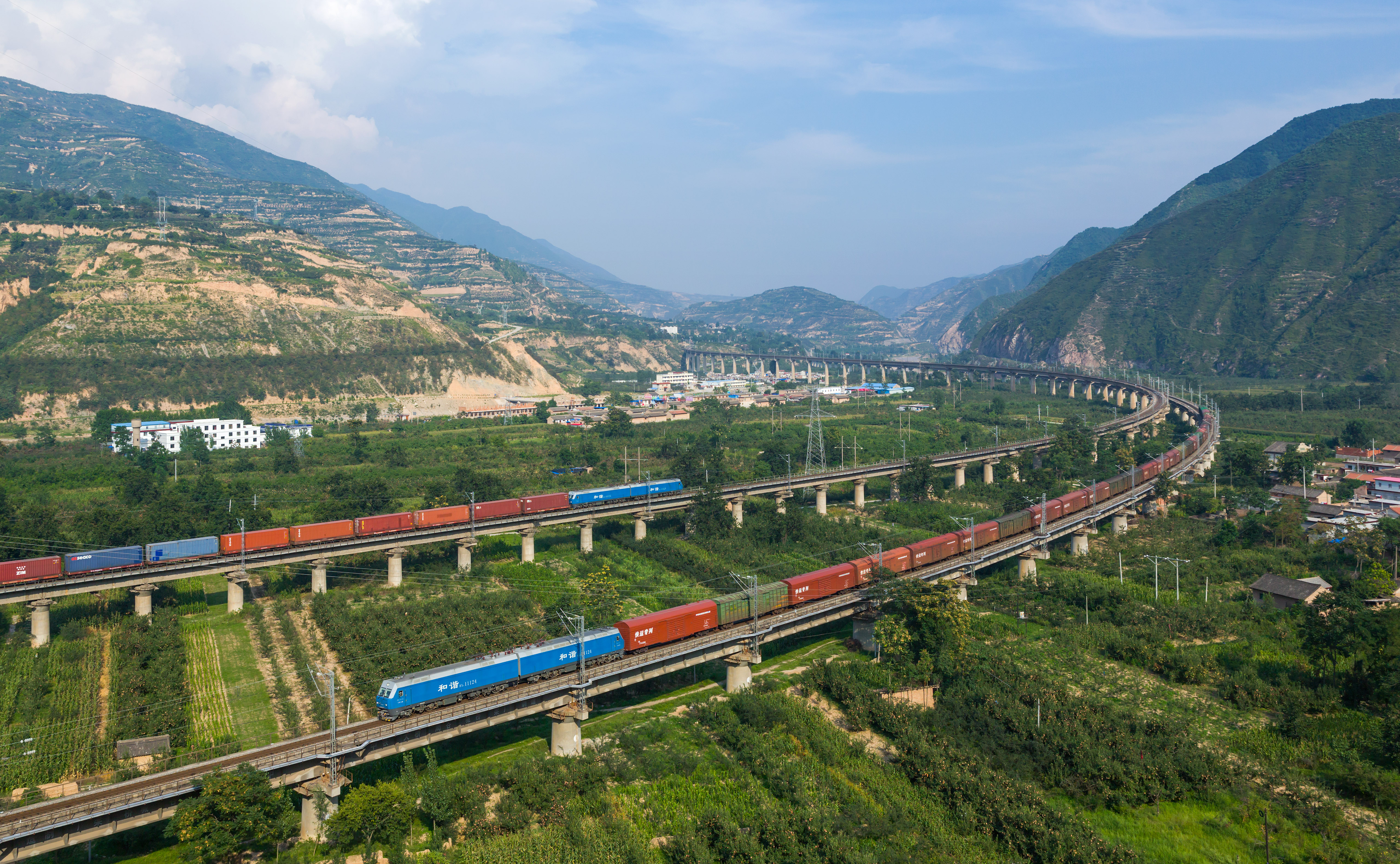 Two China Railways freight trains meet on the Longhai line near Yuanlong, between Tianshui and Baoji, China. Both trains are hauled by HXD1 locomotives.